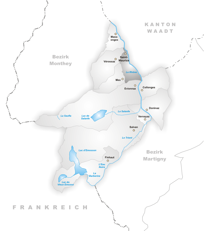 Municipality Saint-Maurice